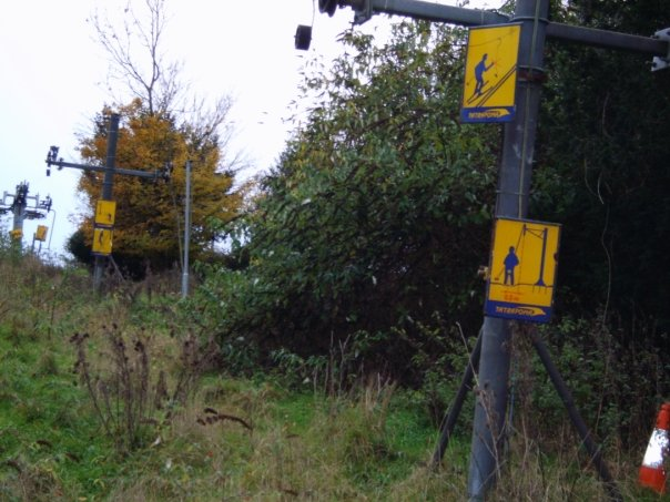 Wycombe Summit Abandoned, 2008